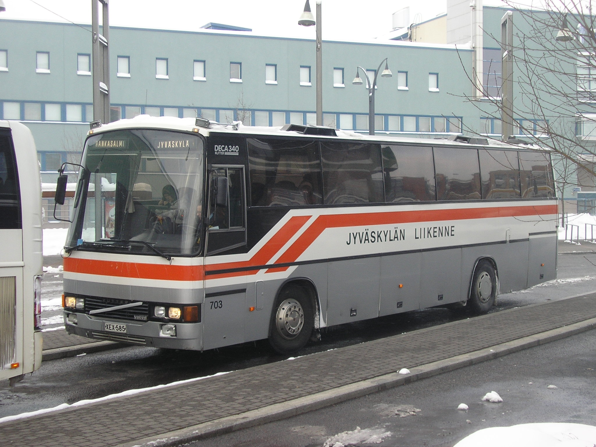 Jyväskylän Liikenne Volvo B10M / Kutter Deca 340 (no. 703, XEX-585, 1987) in Jyväskylä, Finland.